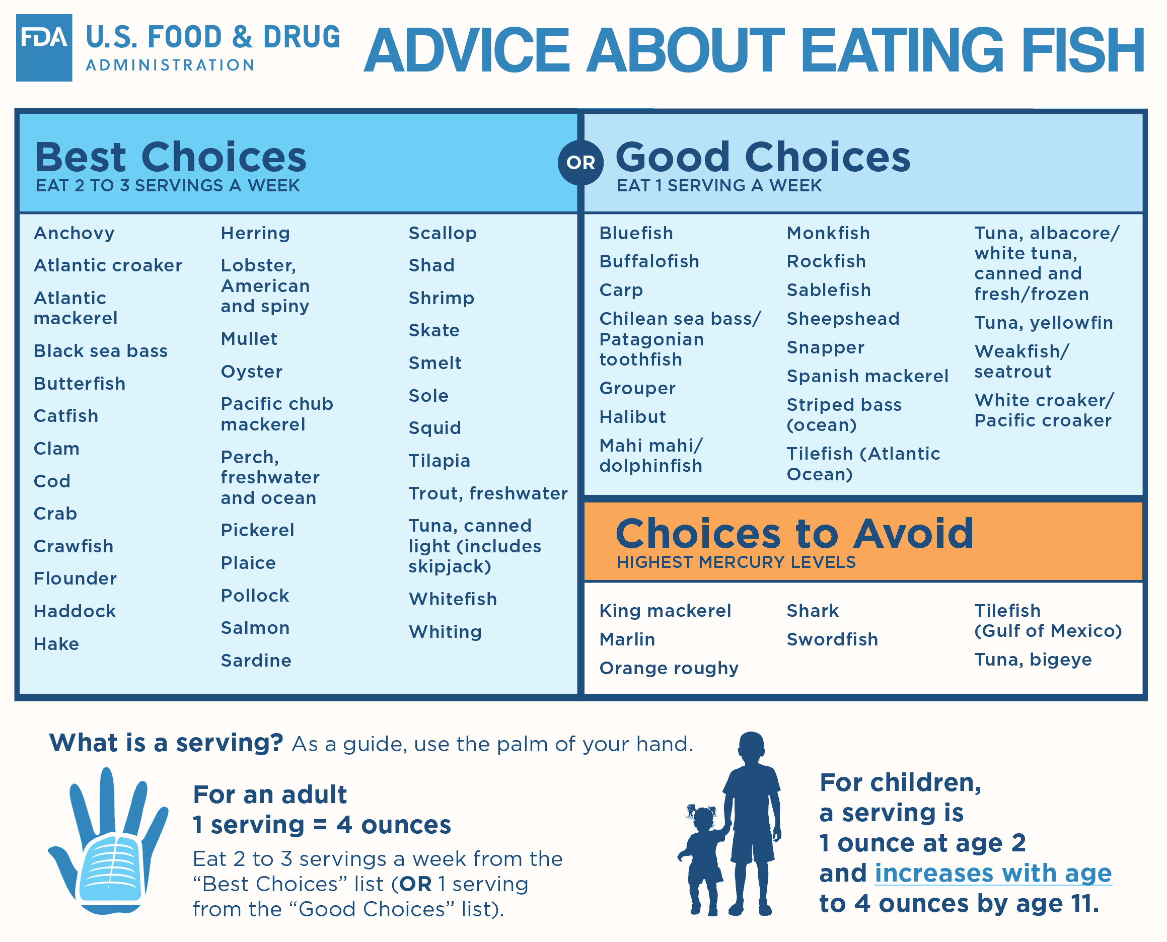 US FDA advice about eating fish, revised as of July 2019